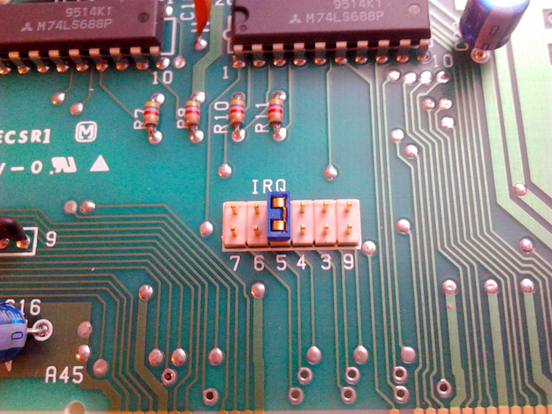 Here is the IRQ selection for the second revision MPU-IMC cards.